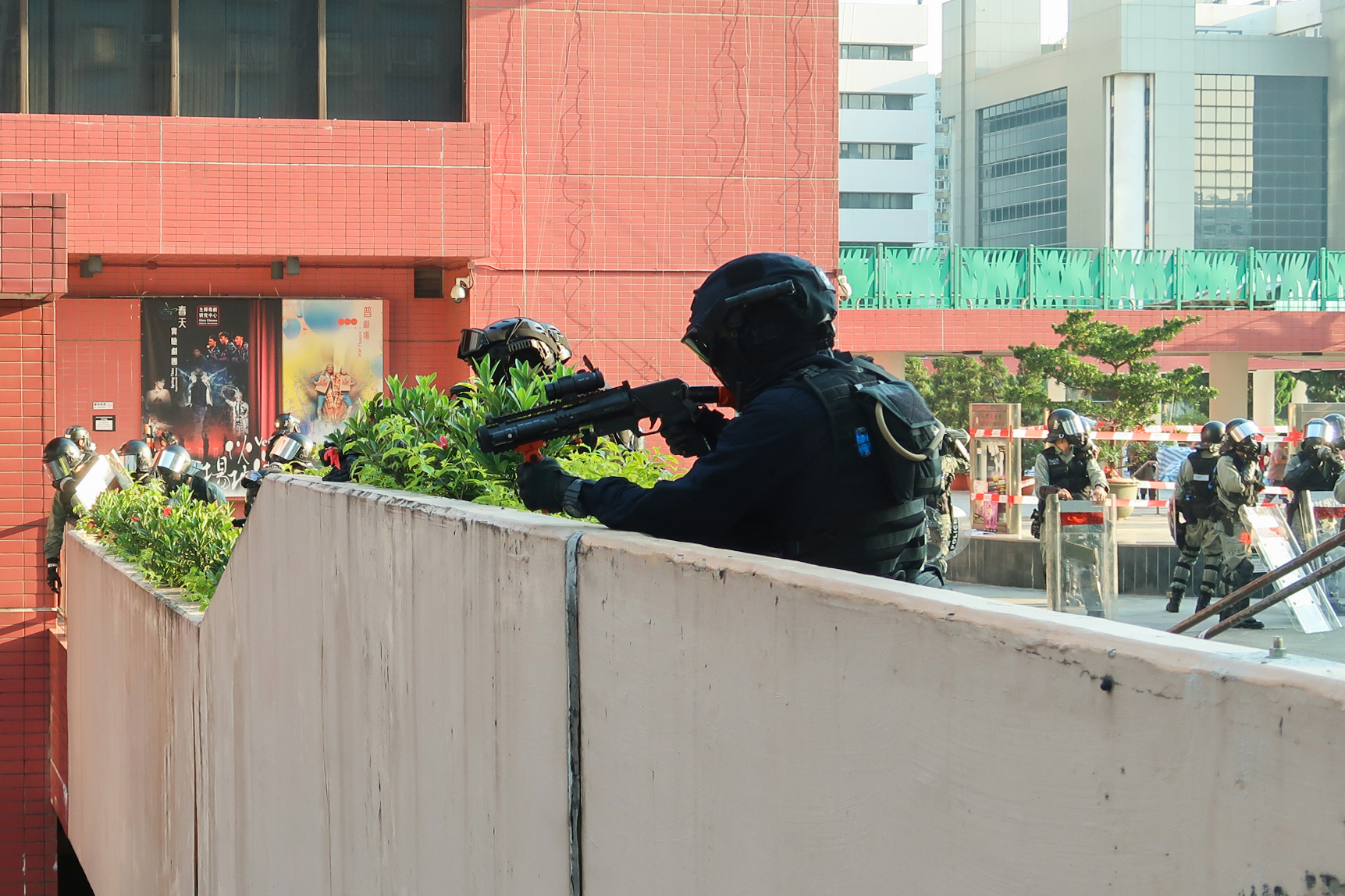 Special Tactical Squad use the weapons